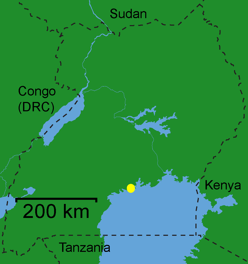 map of Uganda showing the city of Entebbe marked with a dot